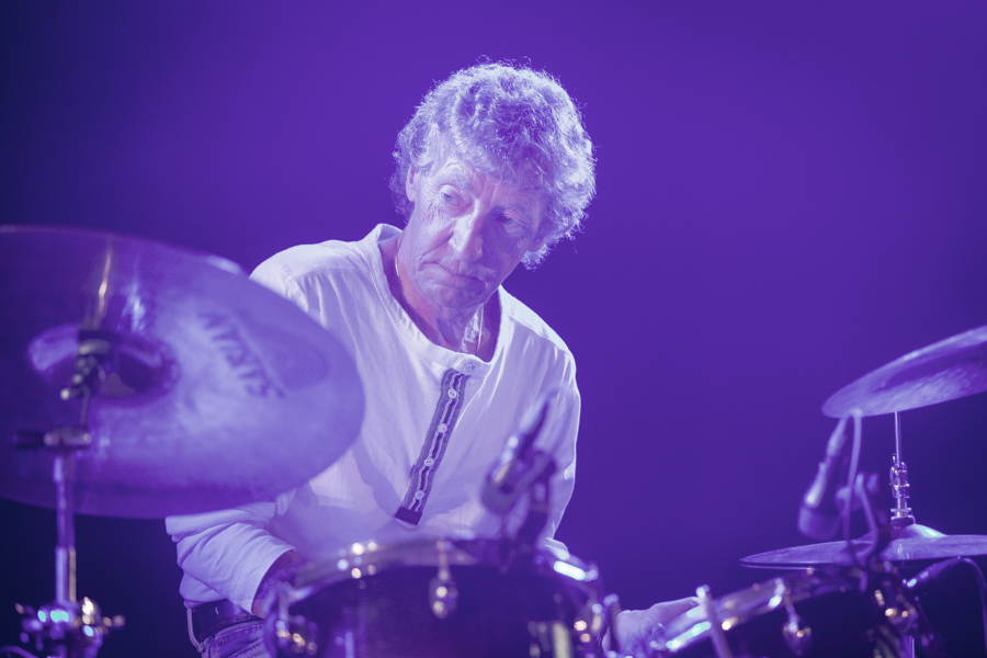 Pål Thowsen with Terje Rypdal Conspiracy and Palle Mikkelborg at Røverstaden. The concert was part of Oslo Jazzfestival and took place on 16. August 2018 in Oslo. Lineup: Terje Rypdal (guitar) Palle Mikkelborg (trumpet) Ståle Storløkken (keyboard) Endre Hareide Hallre (bass guitar) Pål Thowsen (drums)